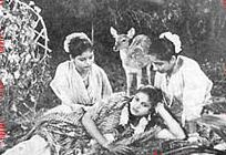 M. S. Subbulakshmi in Shakuntala (1940).